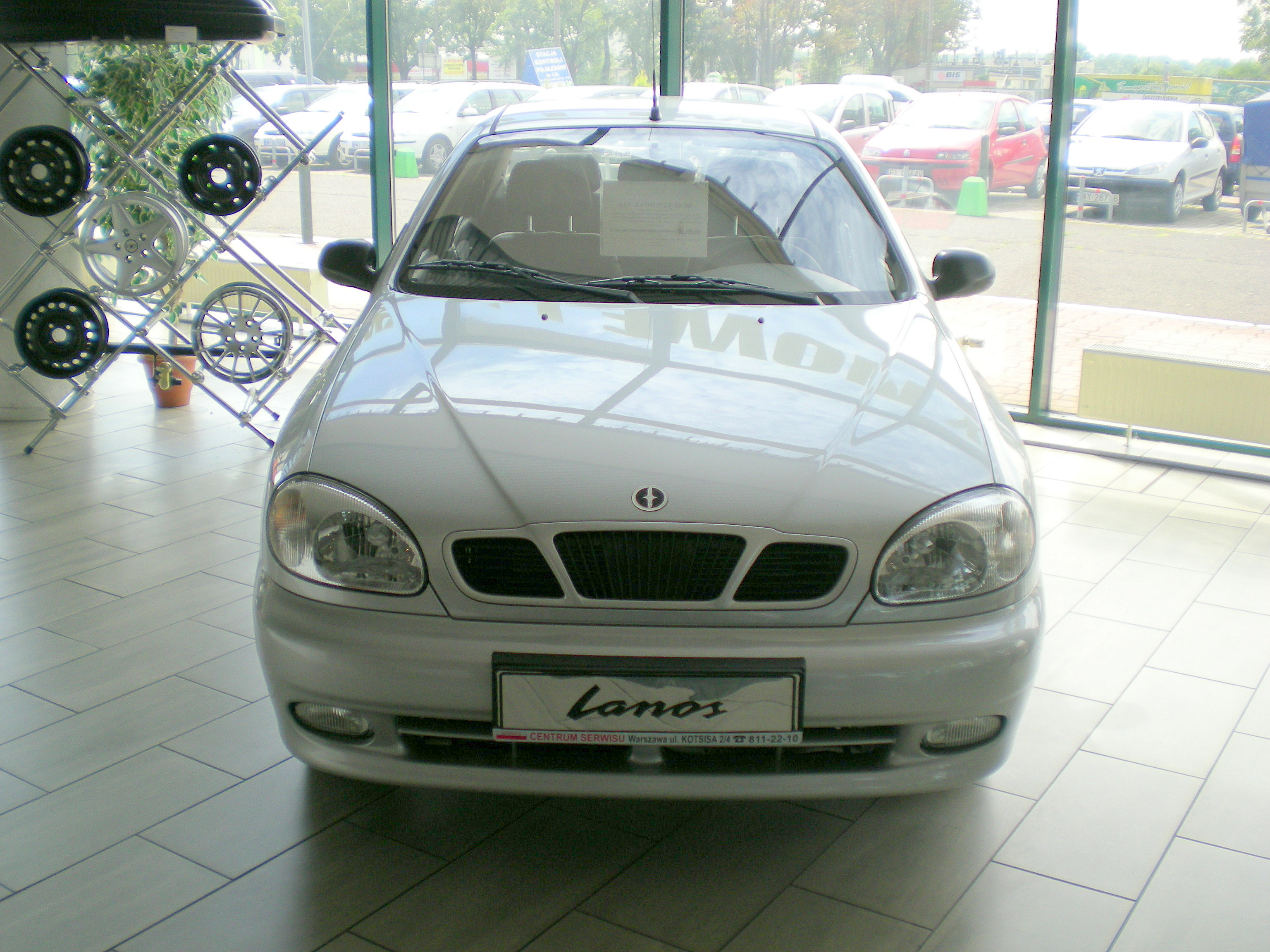 FSO Lanos plus 2008